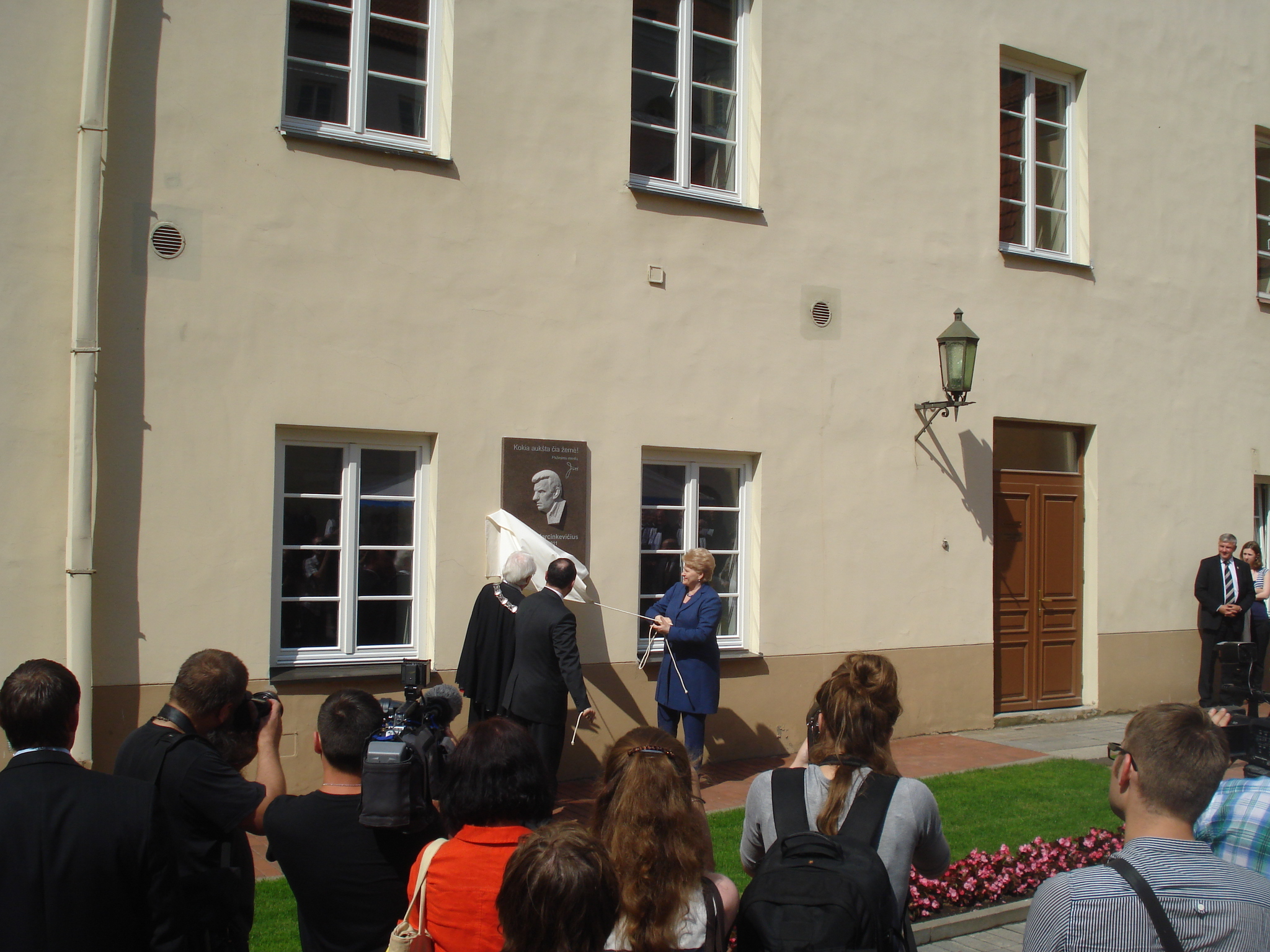 Benediktas Juodka, Arūnas Gelunas, Dalia Grybuaskaitė during the ceremony of the opening of the memorial plaque in memory of Lithuanian poet Justinas Marcinkevičius in Sarbevijus' courtyard (Vilnius University)